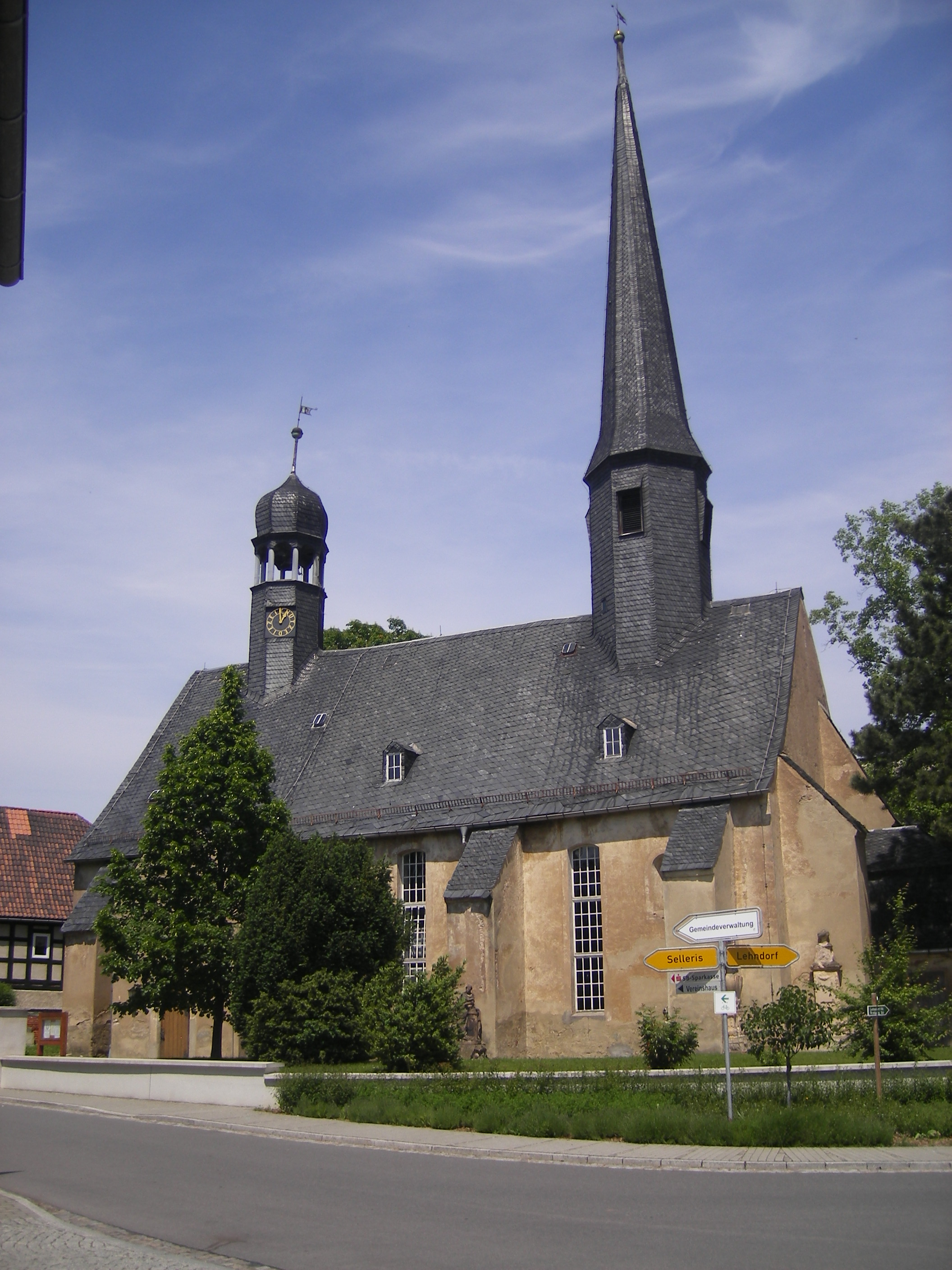 The church in Saara/Thuringia in Germany